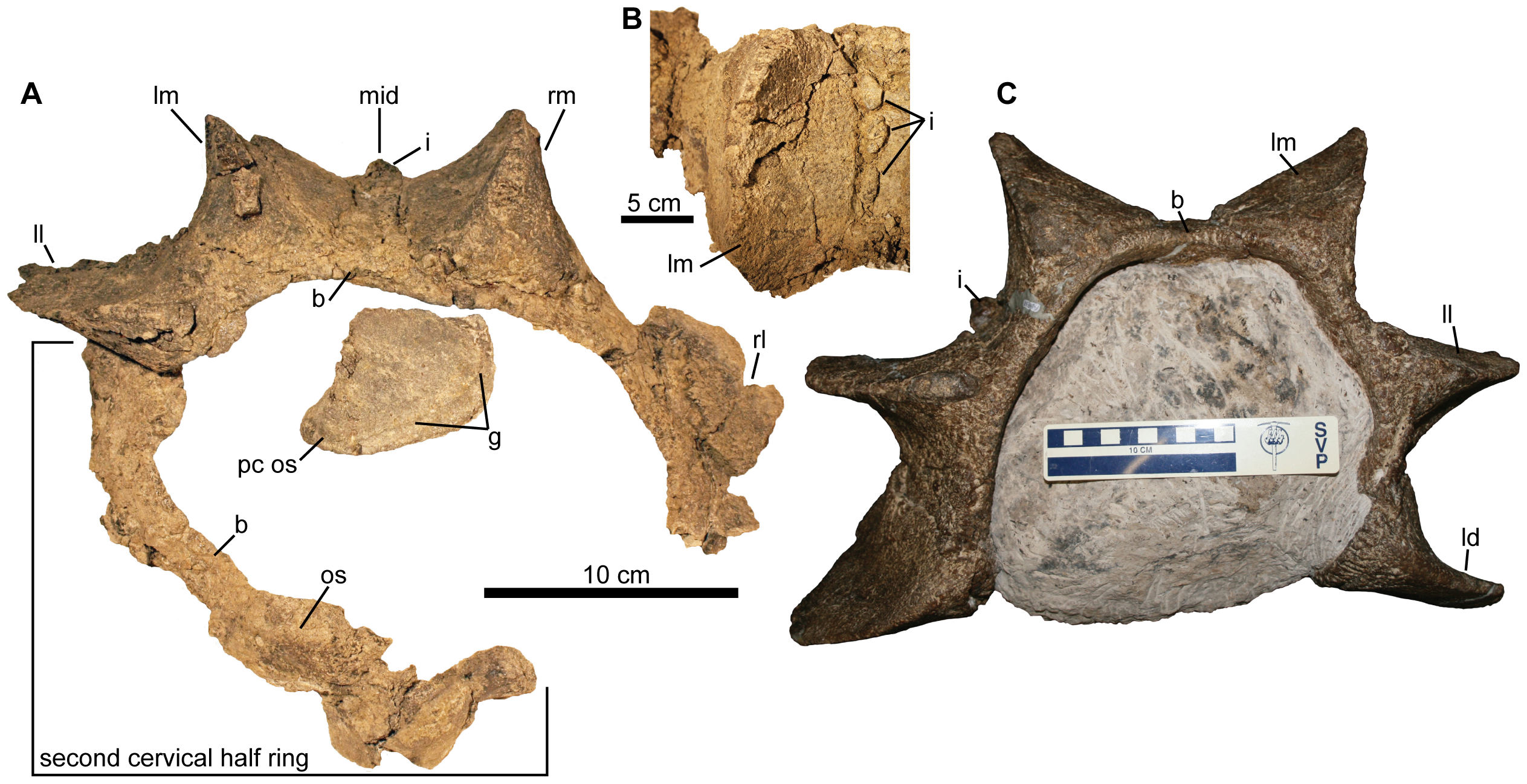 Cervical half rings of Ziapelta sanjuanensis. A) Incomplete first and second cervical half rings of NMMNH P-64484 (holotype), with isolated post-cervical osteoderm, as preserved in situ. First cervical half ring is in posterior view. B) Dorsal view of left medial osteoderm showing smaller interstitial osteoderms, anterior is up. C) Isolated first cervical half ring NMMNH P-66930 (referred specimen) in anterior view. Abbreviations: b, band; g, groove; i, interstitial osteoderm; ld, left distal osteoderm; ll, left lateral osteoderm; lm, left medial osteoderm; mid, midline of the cervical half ring; os, osteoderm; pc os, post-cervical osteoderm; rl, right lateral osteoderm; rm, right medial osteoderm.